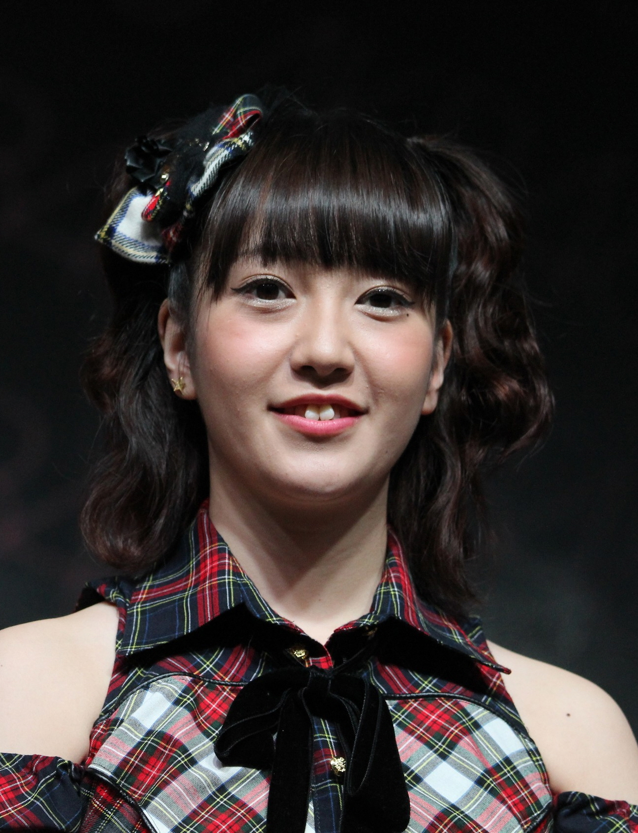 130413 AKB48 at Tokyo Auto Salon Singapore Meet & Greet 2 and Performance